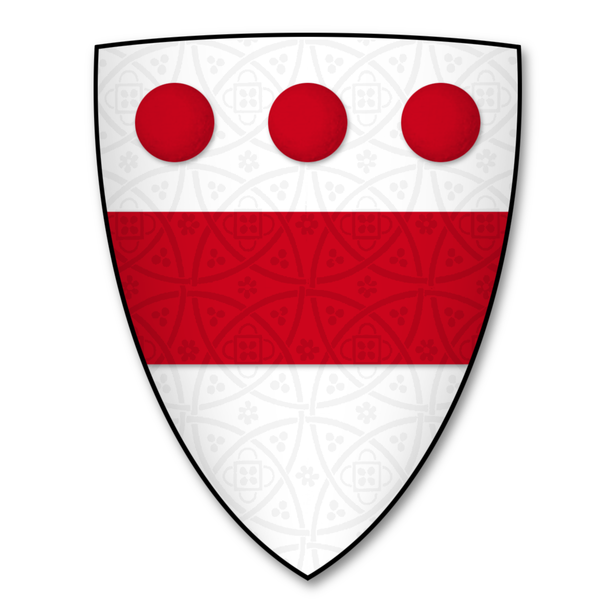 Armorial Bearings of the DEVEREUX (Viscount Hereford) family of Weobley, Herefs. Arms: Argent, a fess gules, in chief three torteaux. Crest: Out of a ducal coronet or, a talbot's head argent, ears gules. Strong, George (1848) The Heraldry of Herefordshire: Being a Collection of the Armorial Bearings of Families Which Have Been Seated in the County at Various Periods Down to the Present Time., London: Churton Press